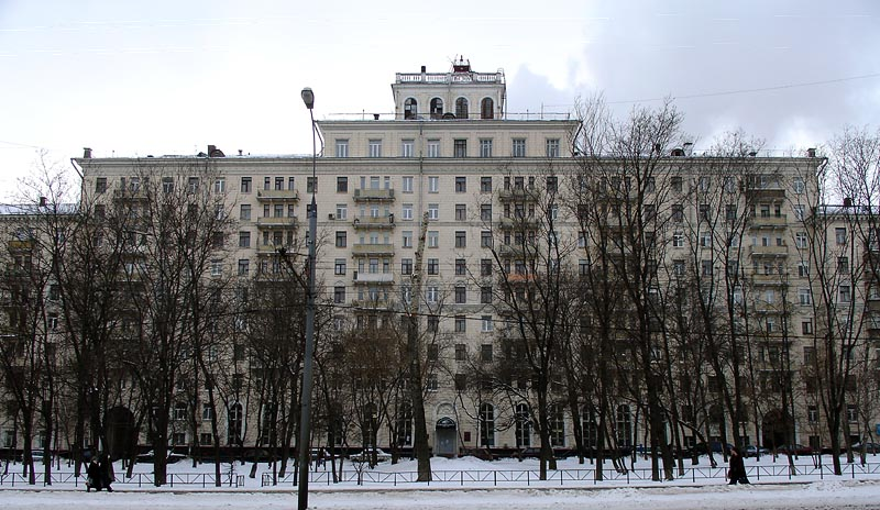 Peschanaya Square, 1952, Moscow